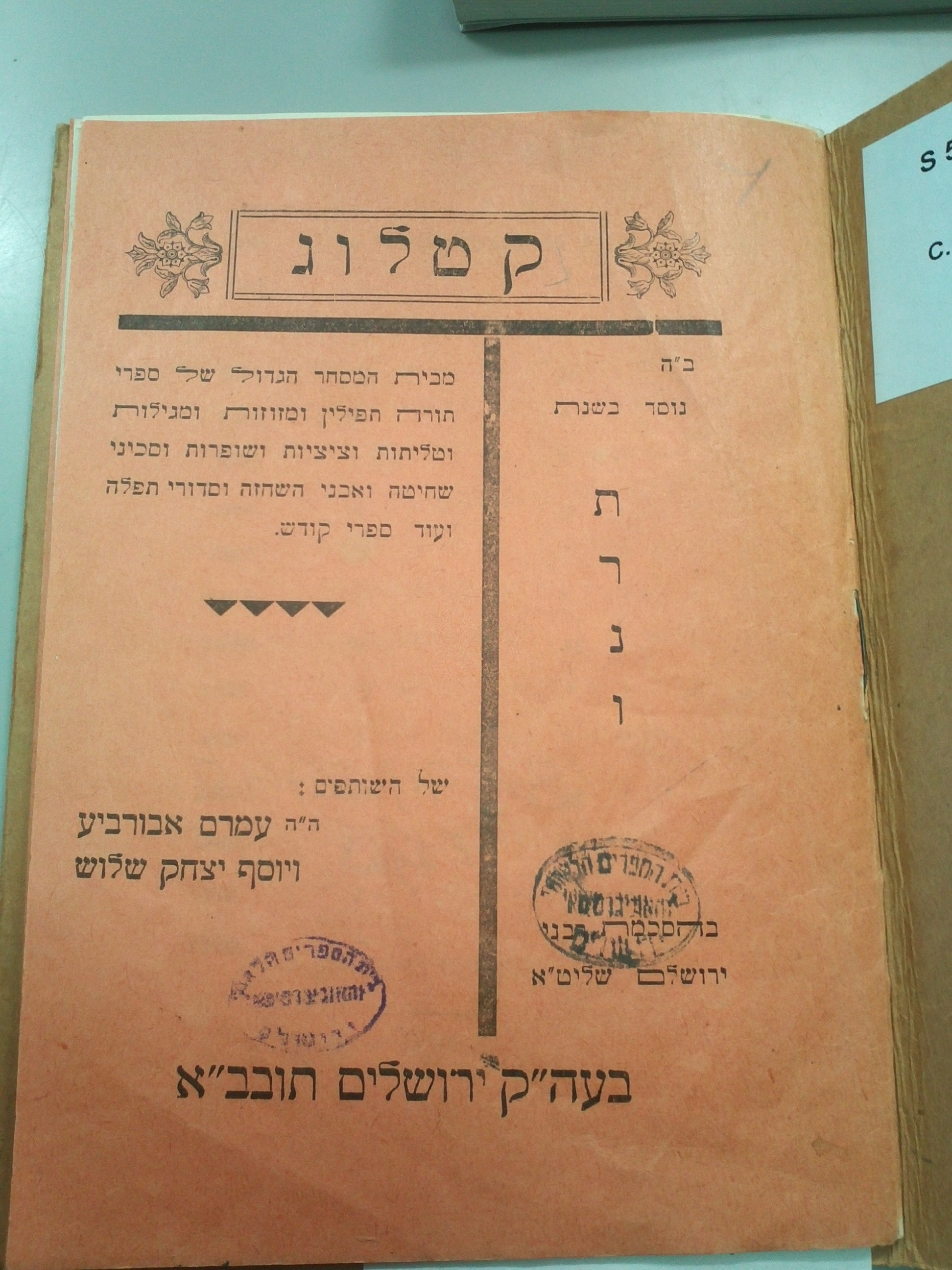 Amram Aburbeh and Yosef Yitzchak Shloush catalog of Judaica store , Torah scrolls Tefillin and Mezuzas,Megilot (scrolls),Talitot and Tziziot, Shofarot (ram horns), Shchita knives, prayer siddurs and Religious Holy books. Jerusalem